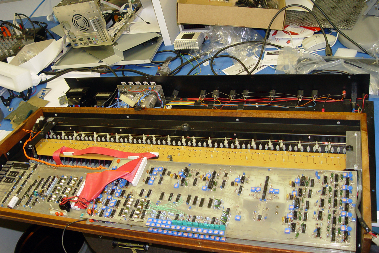 SCI Prophet-10 inside – all of it flipped open